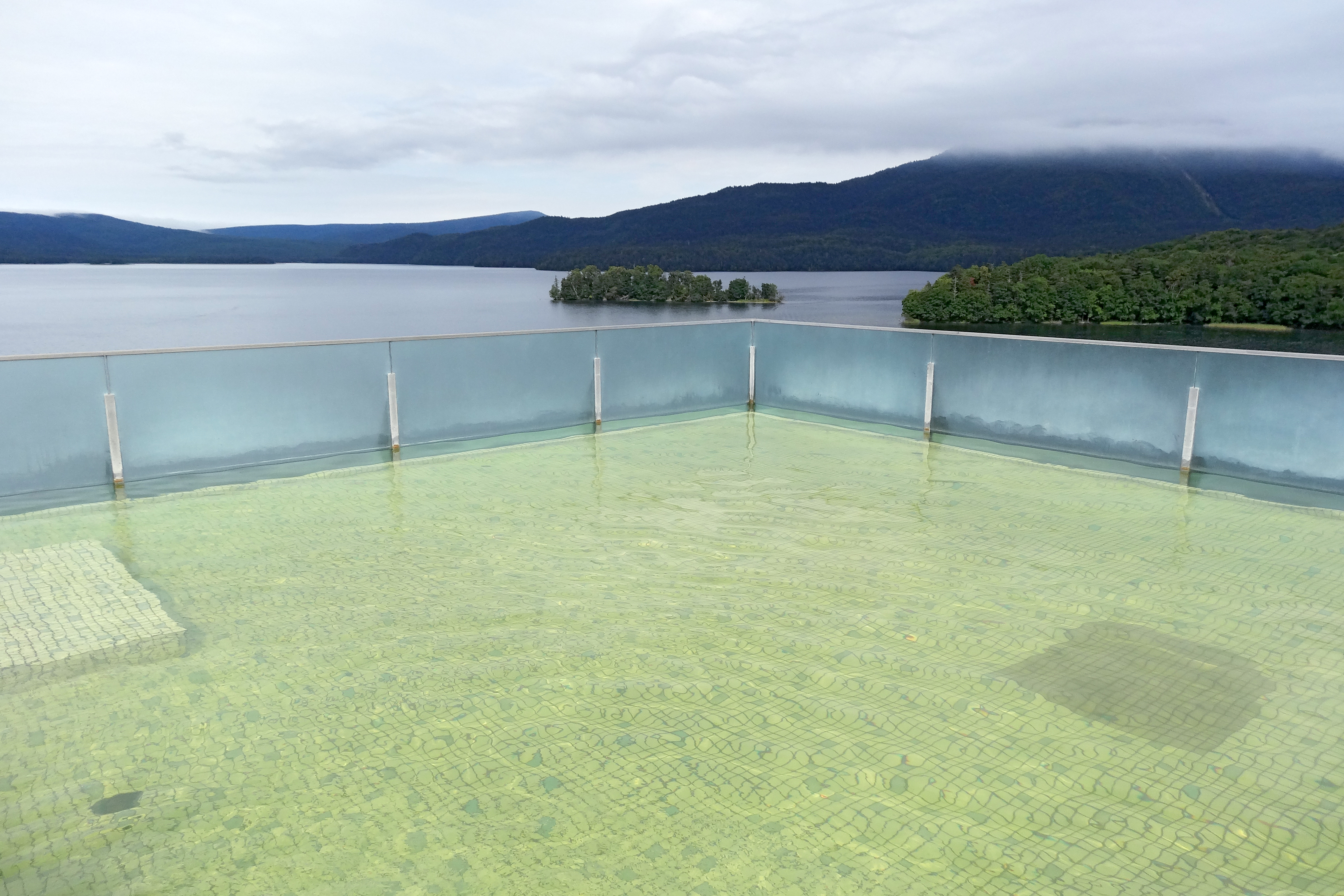 Lake_Akan_Tsuruga_Resort_Spa_Tsuruga_Wings in Kushiro City, Hokkaido prefecture, Japan